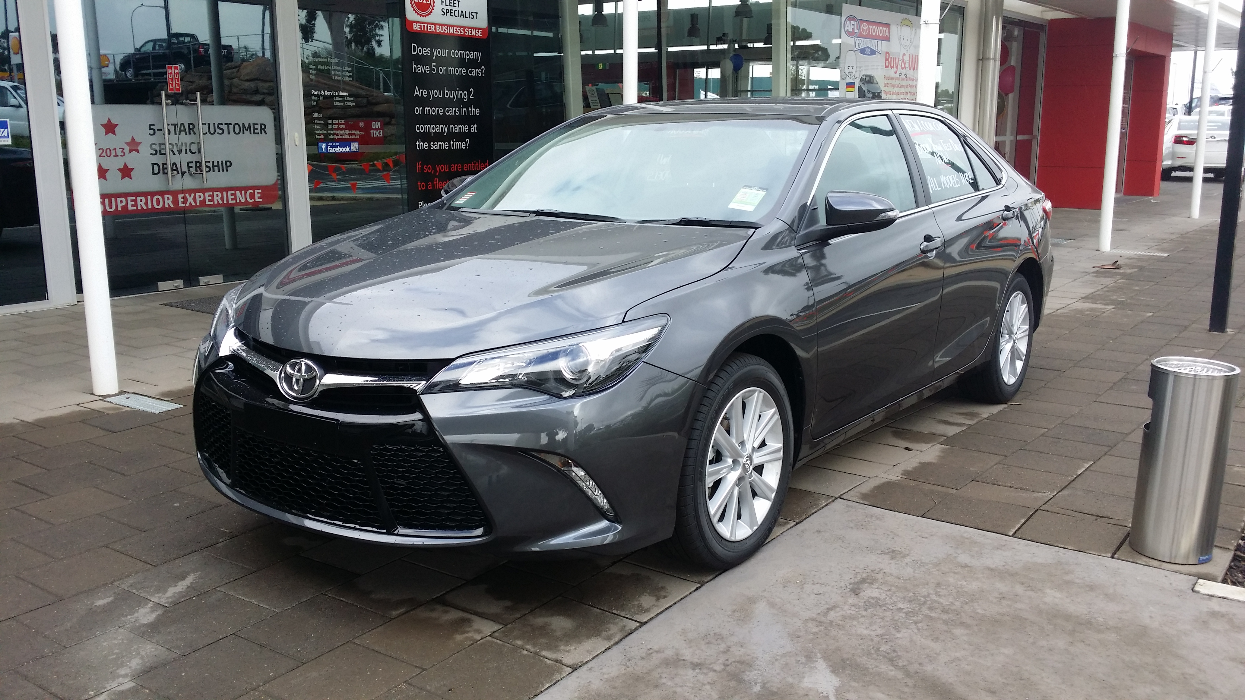 Australian built Toyota Camry.